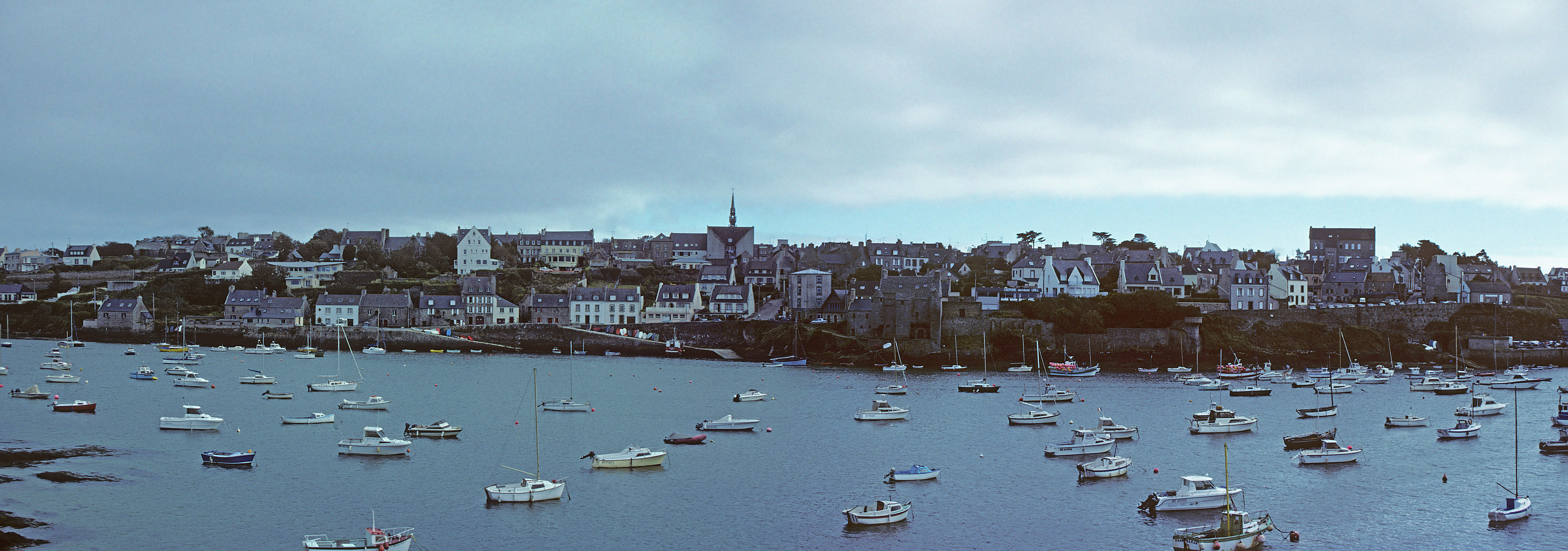 Le Conquet in Brittany, France, seen from NNW across the harbour.